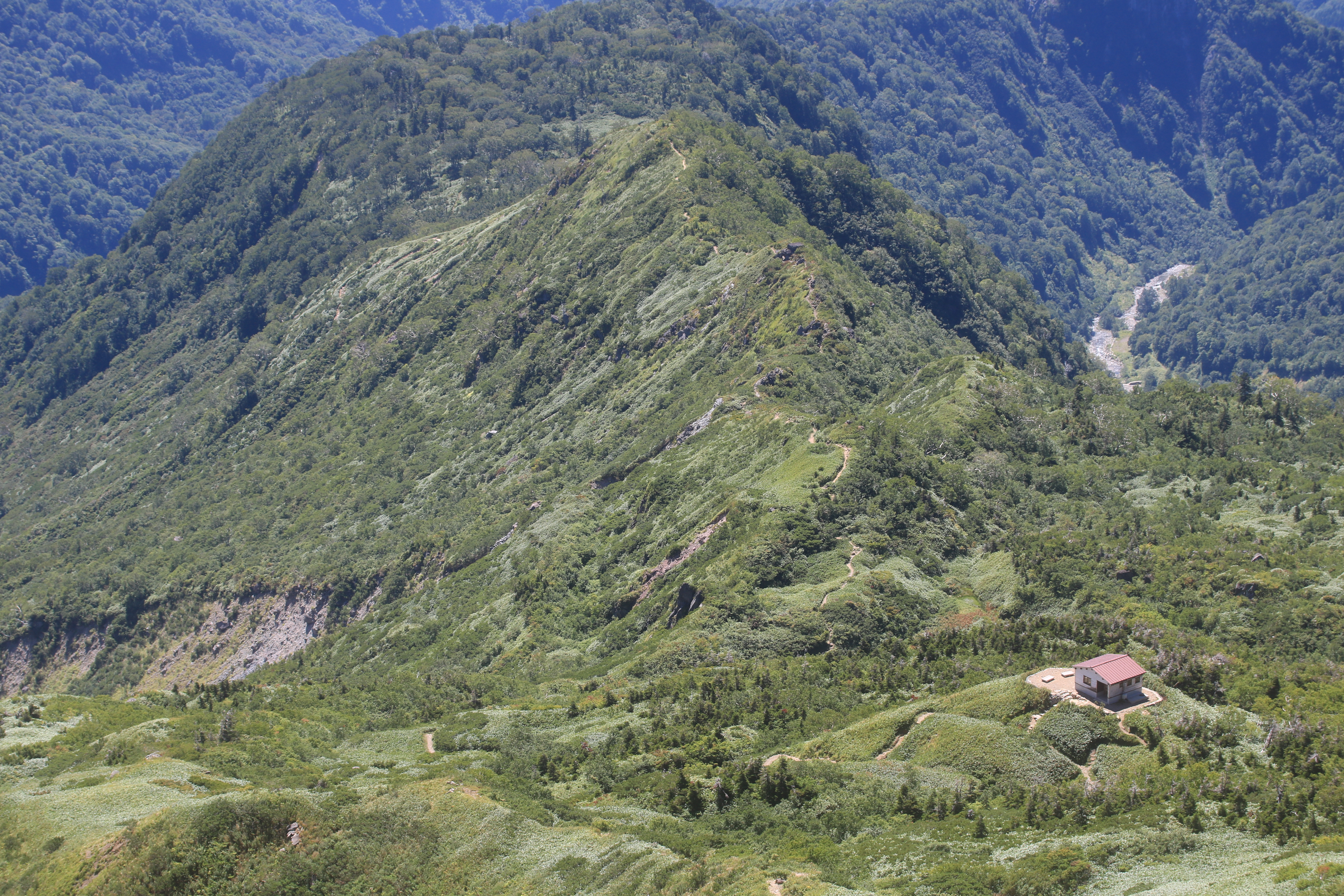 Kanko Sindo of Mount Haku and Tonogaike hinangoya in Shiarmine, Hakusan, Ishikawa, Prefecture, Japan.